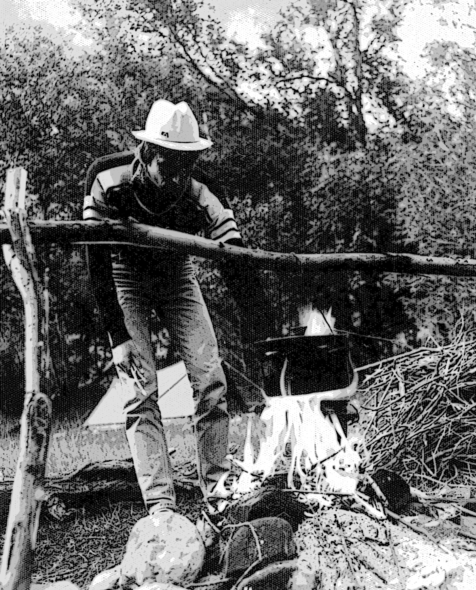 Campfire cooking.